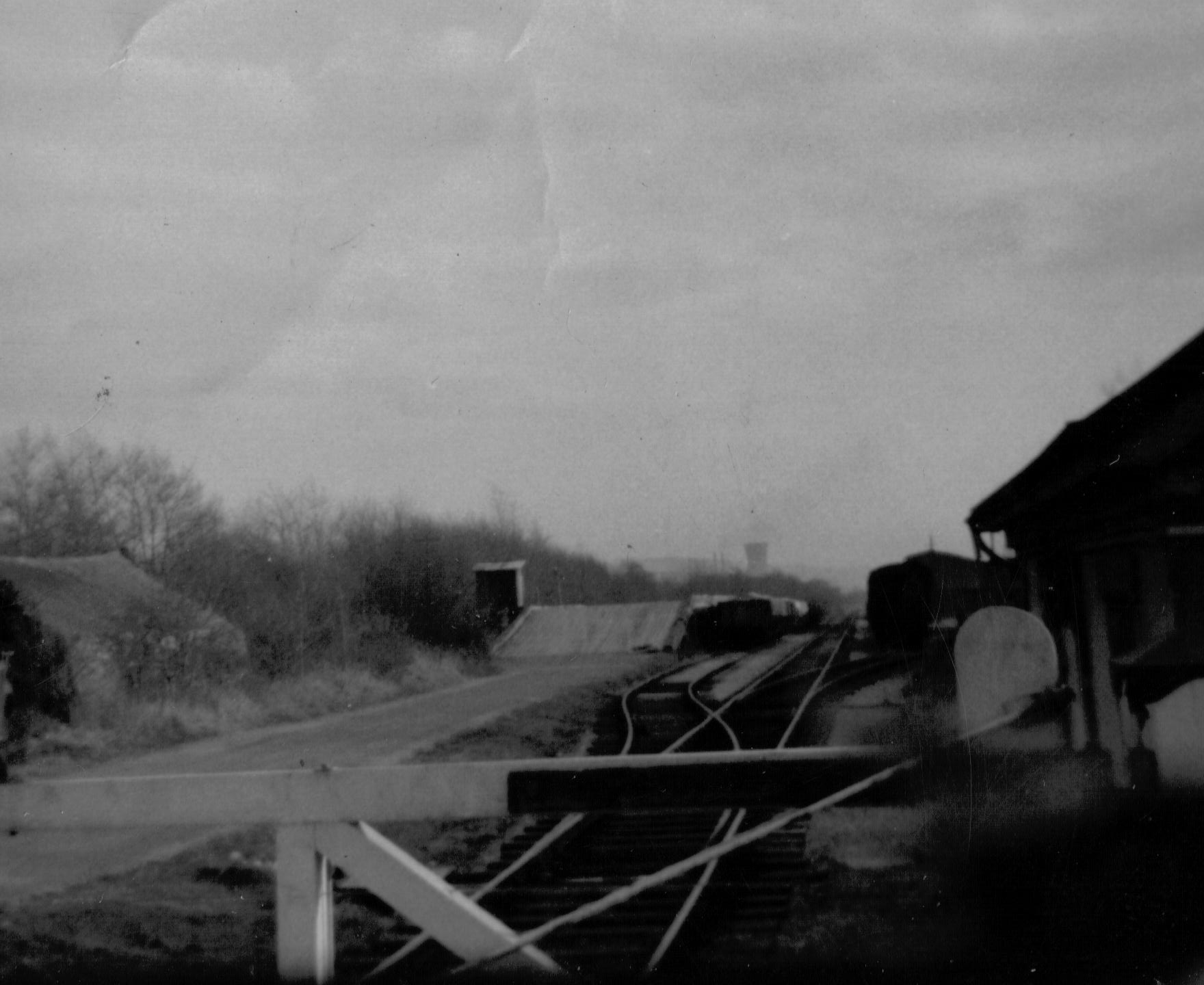 Teign Bridge clay sidings , South Devon, England